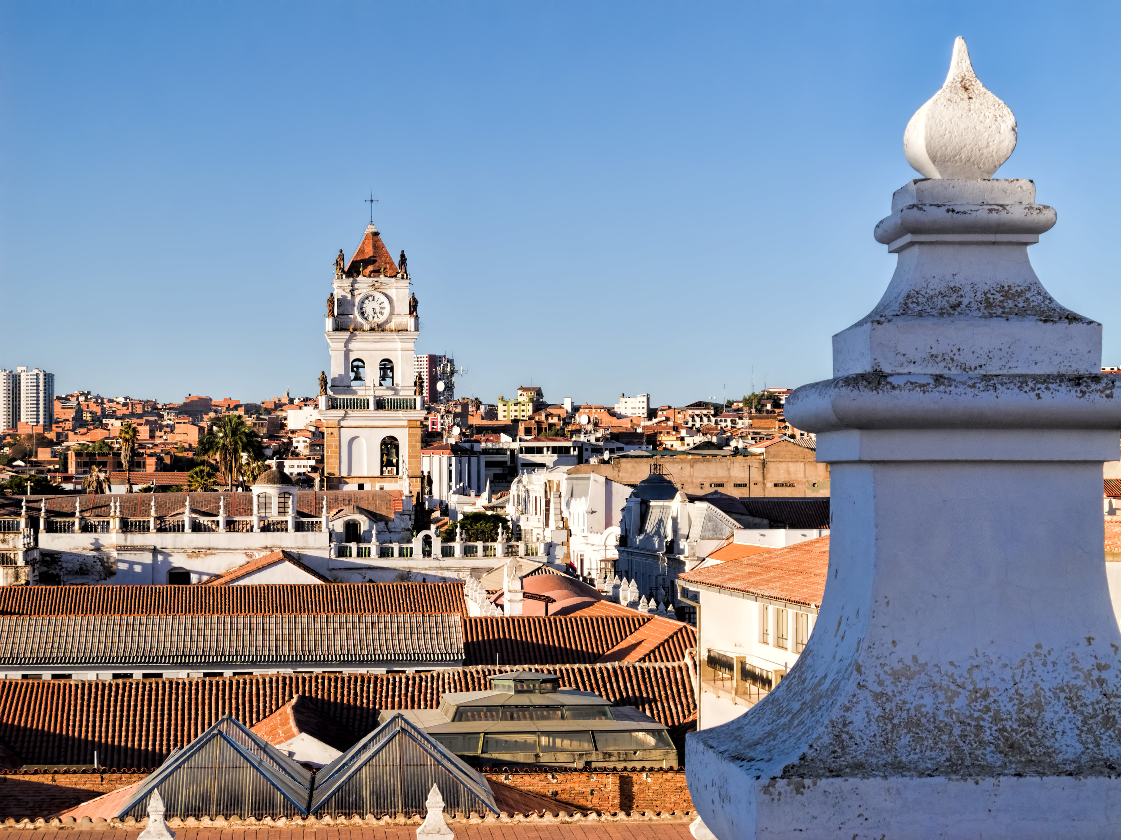 The roof of the Convent of St. Felipe Neri (built in the 17th century and now a museum) provides a panoramic view of the rooftops of Sucre. The tower with the clock in the distance is the bell tower for the Metropolitan Cathedral of Sucre (built between 1559 and 1712 with the clock brought over from London in 1722). Sucre is known as “The White City” because most of the buildings are painted white—and usually have a roof of terracotta tiles. Sucre (elev. 2,810m/9,214ft) was founded by the Spanish in 1538 as Ciudad de la Plata de la Nueva Toledo (Silver City of New Toledo). It became the judicial, religious, and cultural center of the region. Bolivia achieved independence from Spain on 6 August 1825, the last country in Latin America to do so. In 1839 the city was declared the capital of Bolivia and renamed in honor of Antonio José de Sucre (1795-1830), a leader of the fight for independence who was a close friend of Simón Bolívar and served as the second president of Bolivia from the end of 1825 to 1828. (The administrative capital of Bolivia shifted to La Paz in 1898.) The Historic City of Sucre was declared a UNESCO World Heritage Site in 1991. On Google Earth: Convento de San Felipe Neri 19° 3'0.53"S, 65°15'39.91"W Catedral Metropolitana 19° 2'55.48"S, 65°15'35.81"W